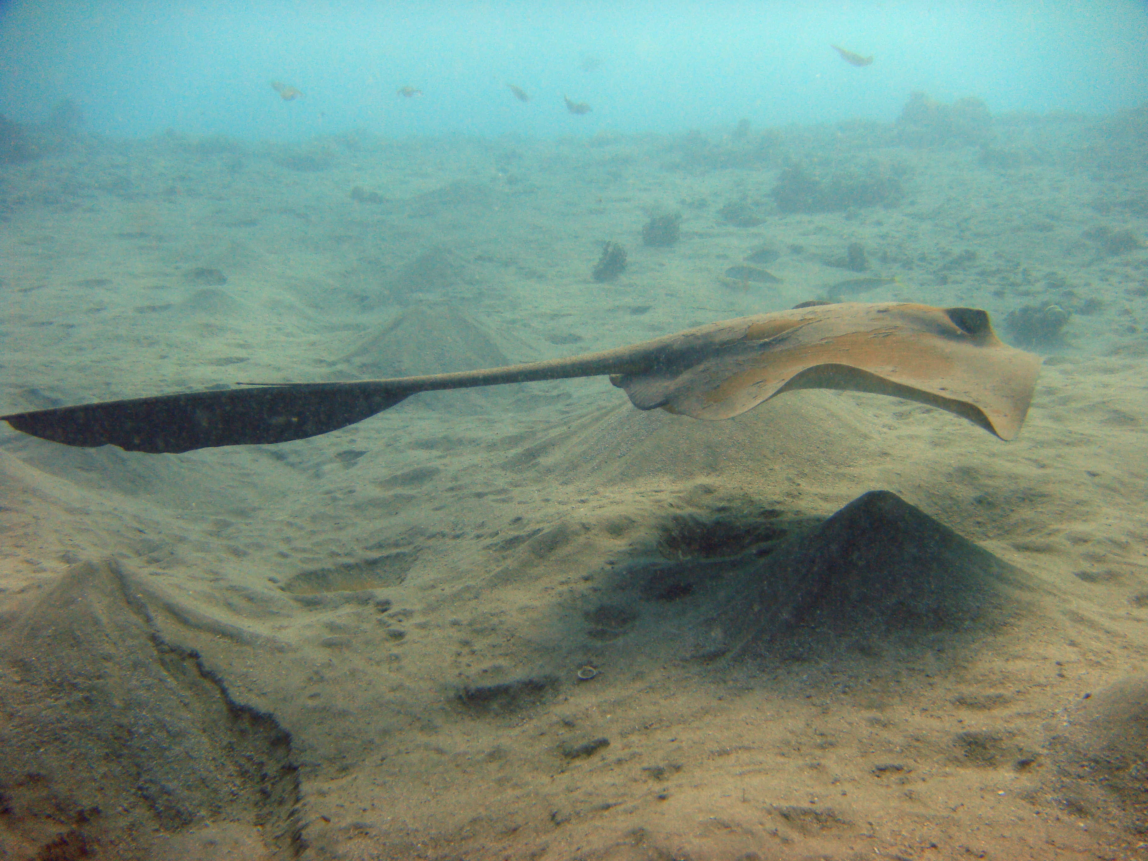 Pastinachus Sephen near Marsa Alam.